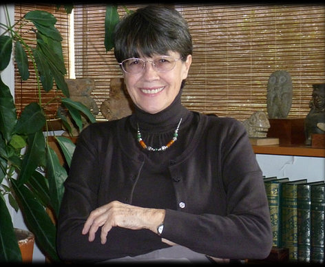 Amparo Ángel